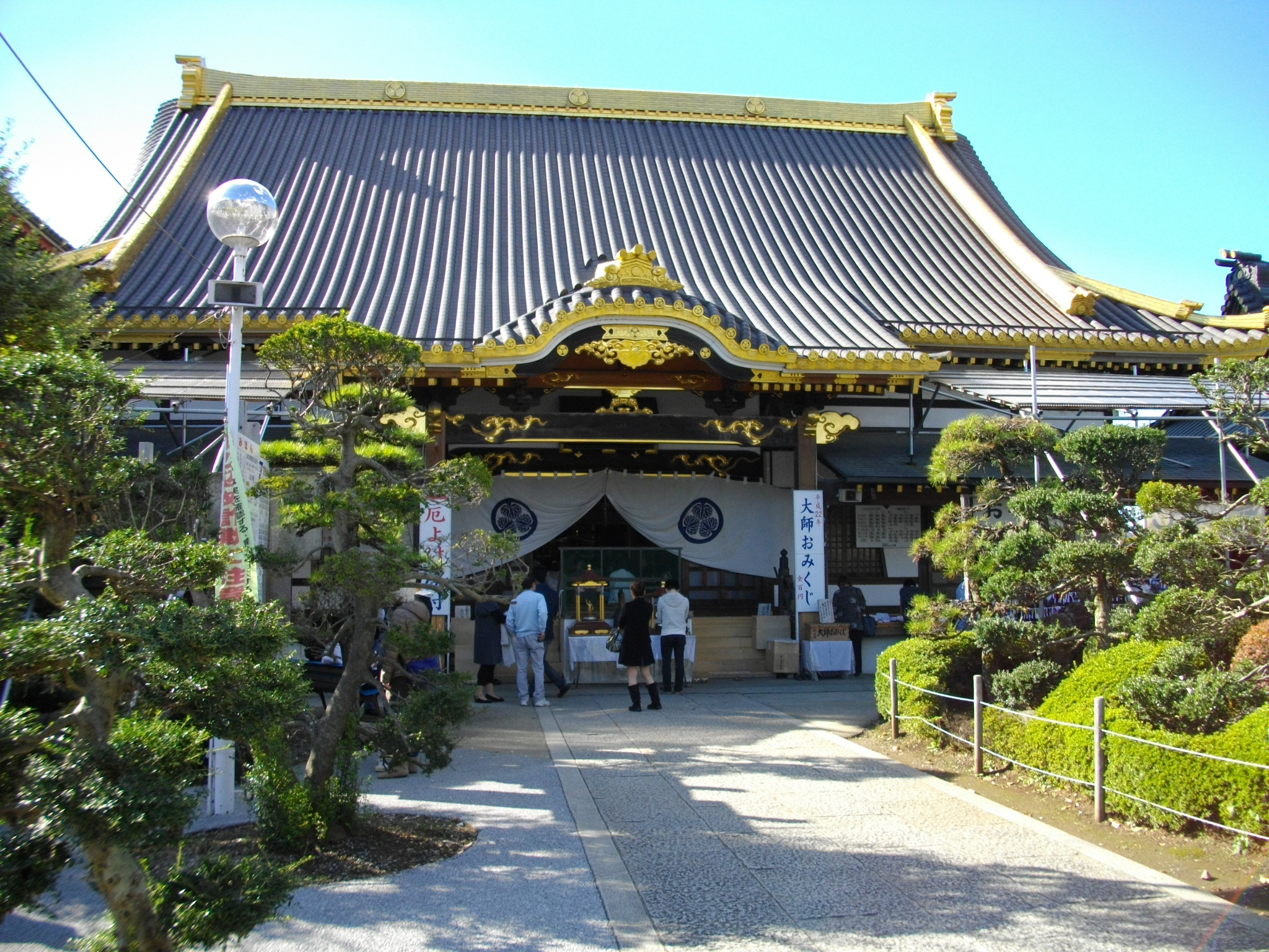 Soshu-ji Temple (Sano Yakuyoke Daishi)